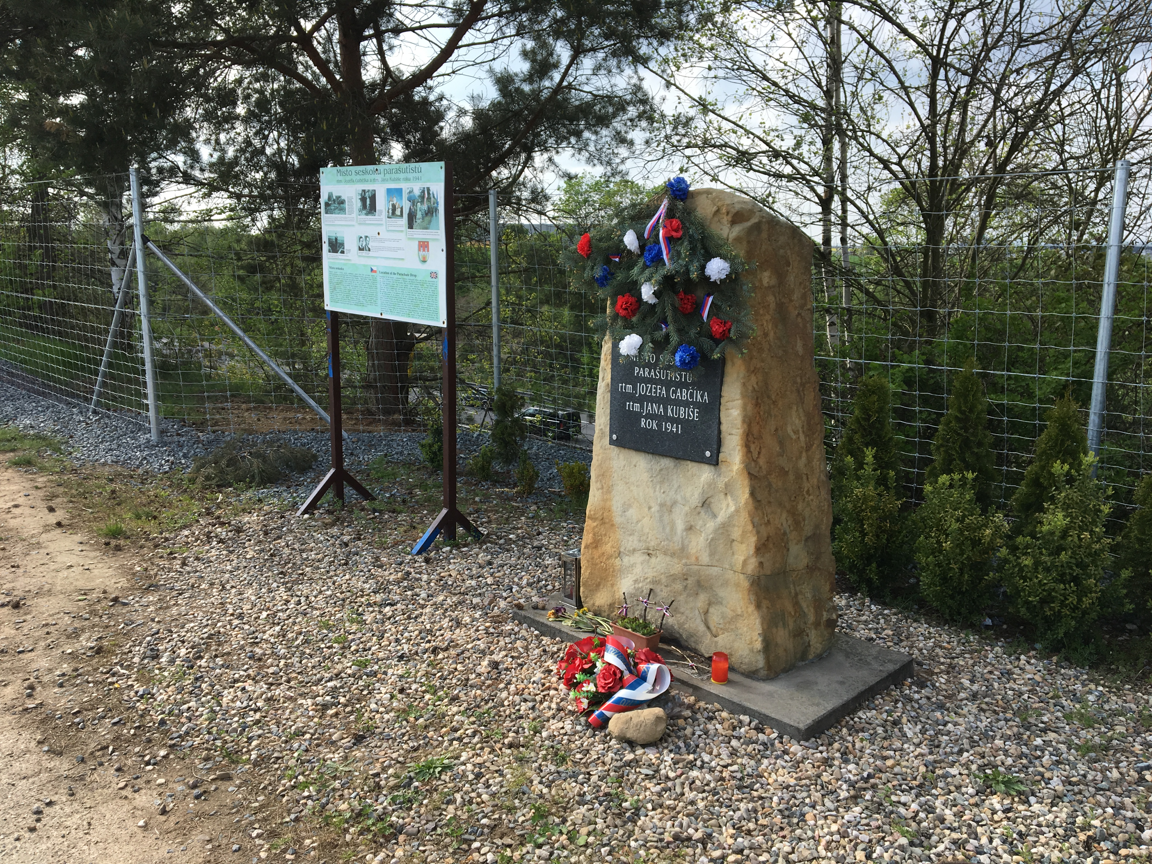 Memorial in the place of the jump of the members of the Anthropoid Airborne Group Jozef Gabčík and Jan Kubiš at a road leading from the road from Nehviz to Vyšehořovice. Paratroopers six months later assassinated the Reich protector Heydrich. The D11 motorway is visible in the background.